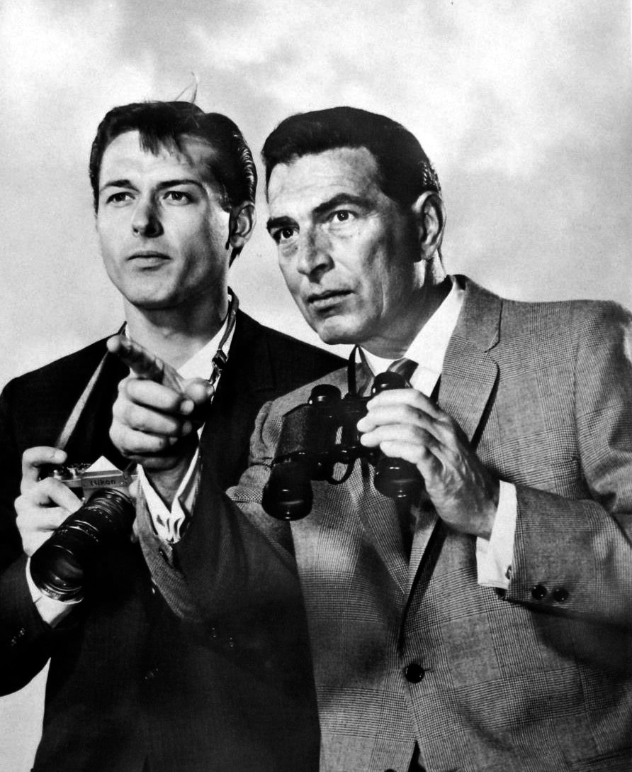 Photo of Stephen Mc Nally (right} as Paul Marino and Robert Harland as Jack Flood from the short-lived television program Target:The Corruptors.